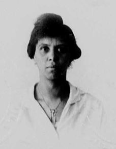 Photo from Ruth Anna Fisher's 1920 passport application